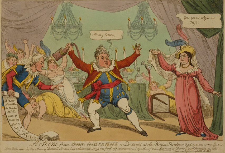 Print showing George IV, in the title role of Mozart's opera, surprised by the sudden arrival of his wife, Caroline, as Donna Anna, lately returned from Italy, during the wedding feast scene, at which a number of bare breasted women are present; on the left, Lord Castlereagh, playing the role of Leporello, holds a long list of the King's female conquests. Caption continues: Don Giovanni by His M-y, Donna Anna by a celebrated actress, her first appearance on this stage these 7 years, Leporello by Derry Down Triangle, the other caricters [sic] by the Corps de Ballet.